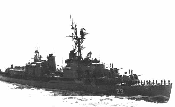 ARA Piedra Buena (D-29)